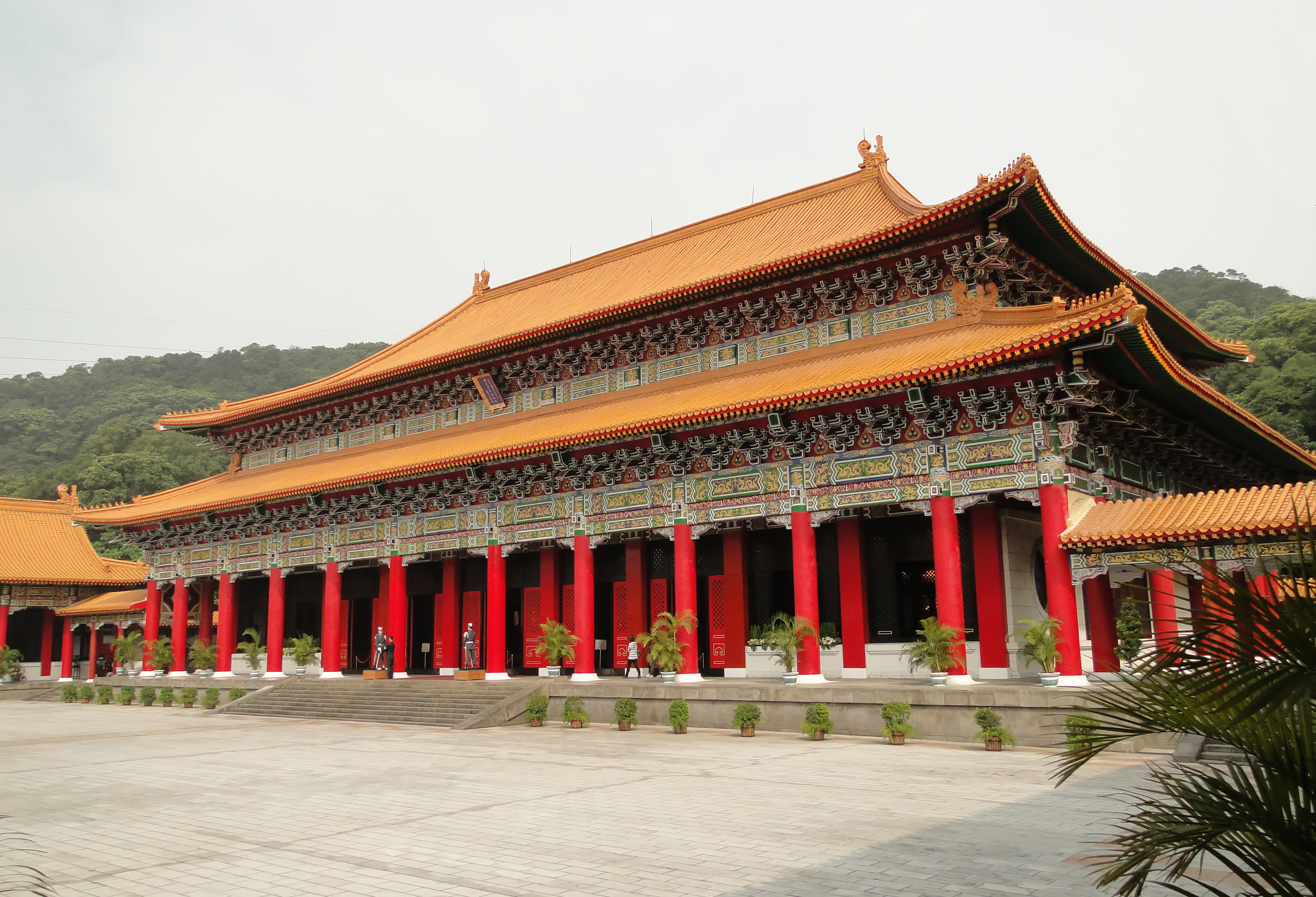 Main shrine of the National Revolutionary Martyr's Shrine, Taipei, Taiwan